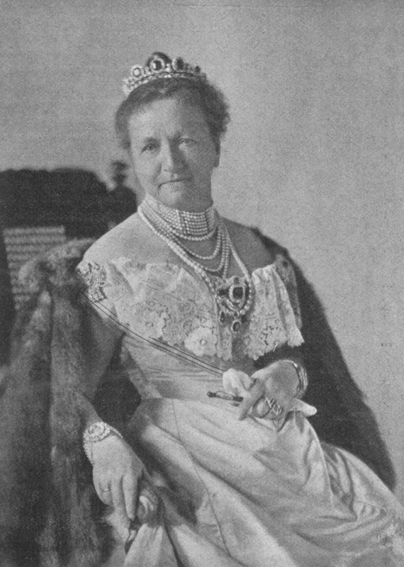 Carola of Vasa (1833-1907), queen of Saxony, in 1902.